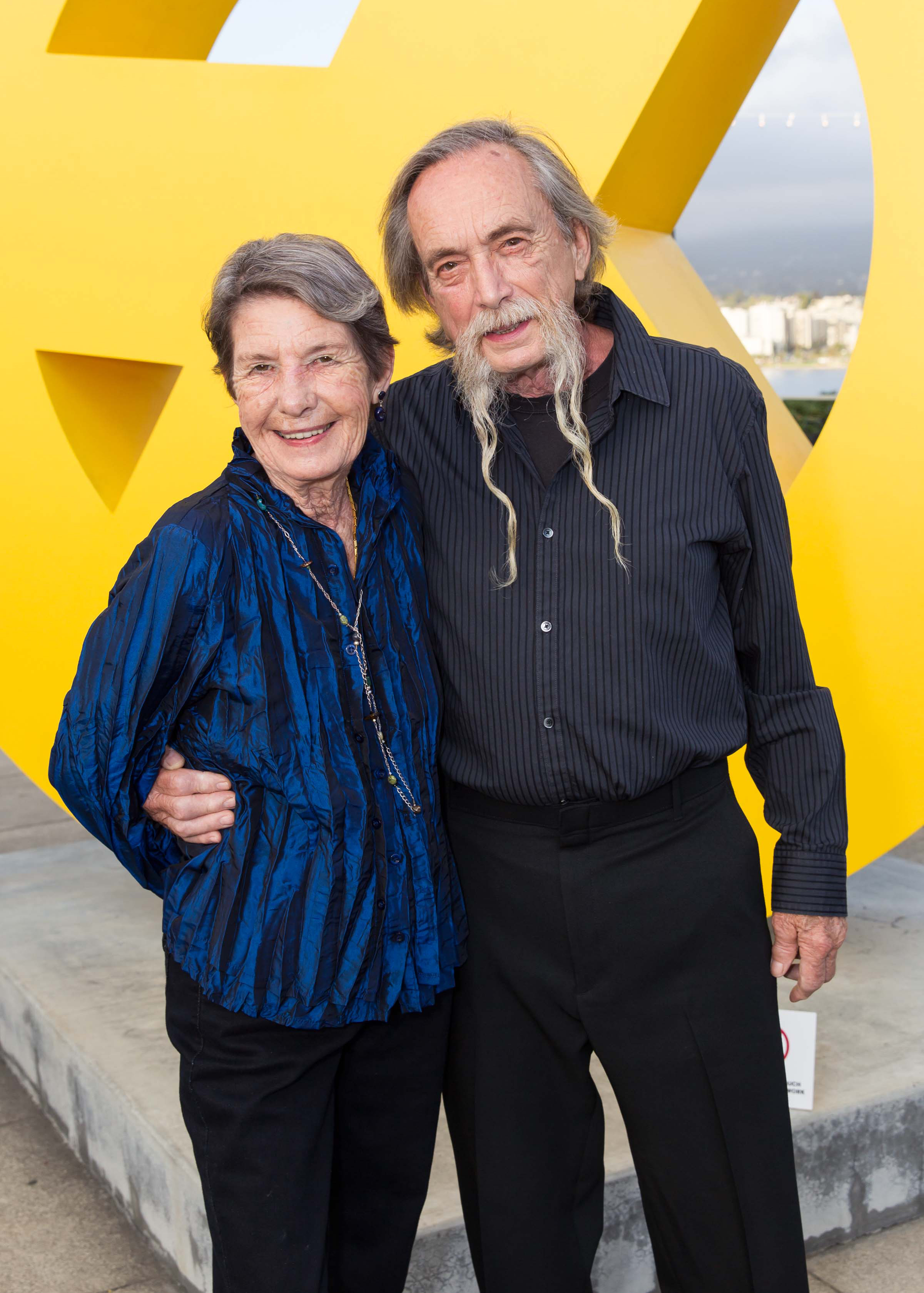 OAKLAND, CA - September 18 - Betty Bailey and Clayton Bailey attend OMCA and SFMOMA Celebrate Opening of Fertile Ground on September 18th 2014 at Oakland Museum of California in Oakland City, CA